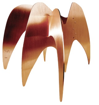 photo of ellie